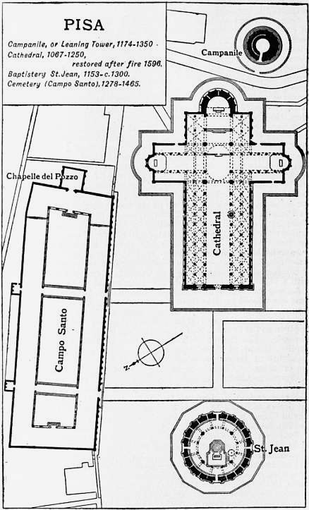 Plan of the Piazza dei Miracoli, Pisa.Image from 1911 Encyclopædia Britannica, article Architecture.